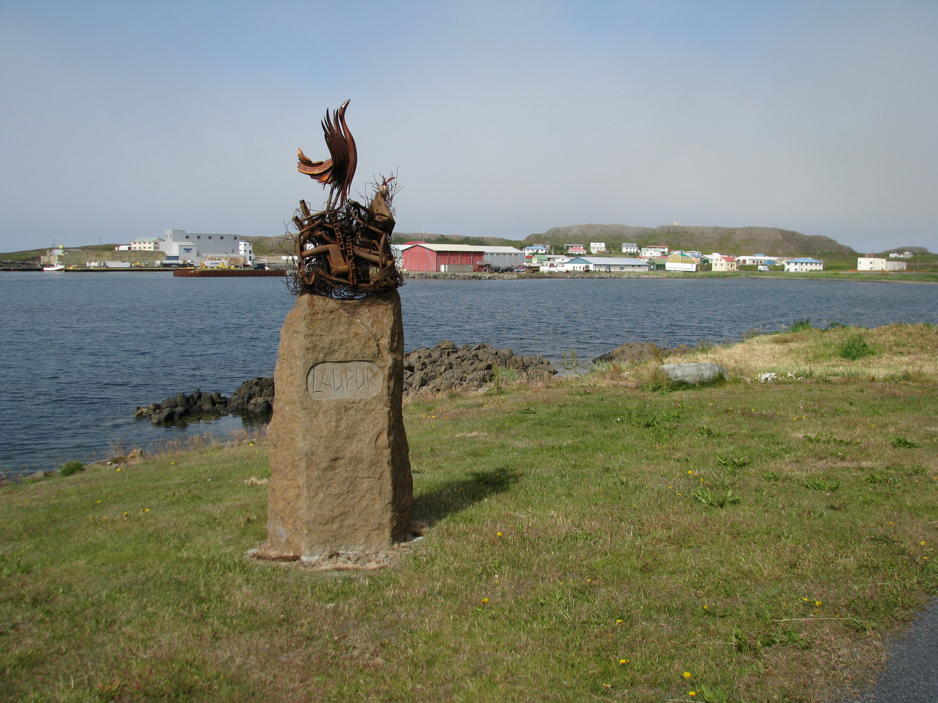 Harbour of Skagaströnd, a town in Iceland.